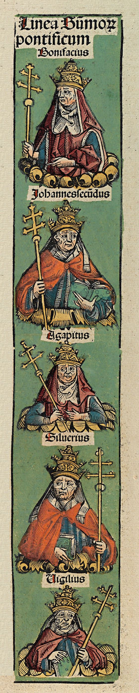 Woodcut from the Nuremberg Chronicle